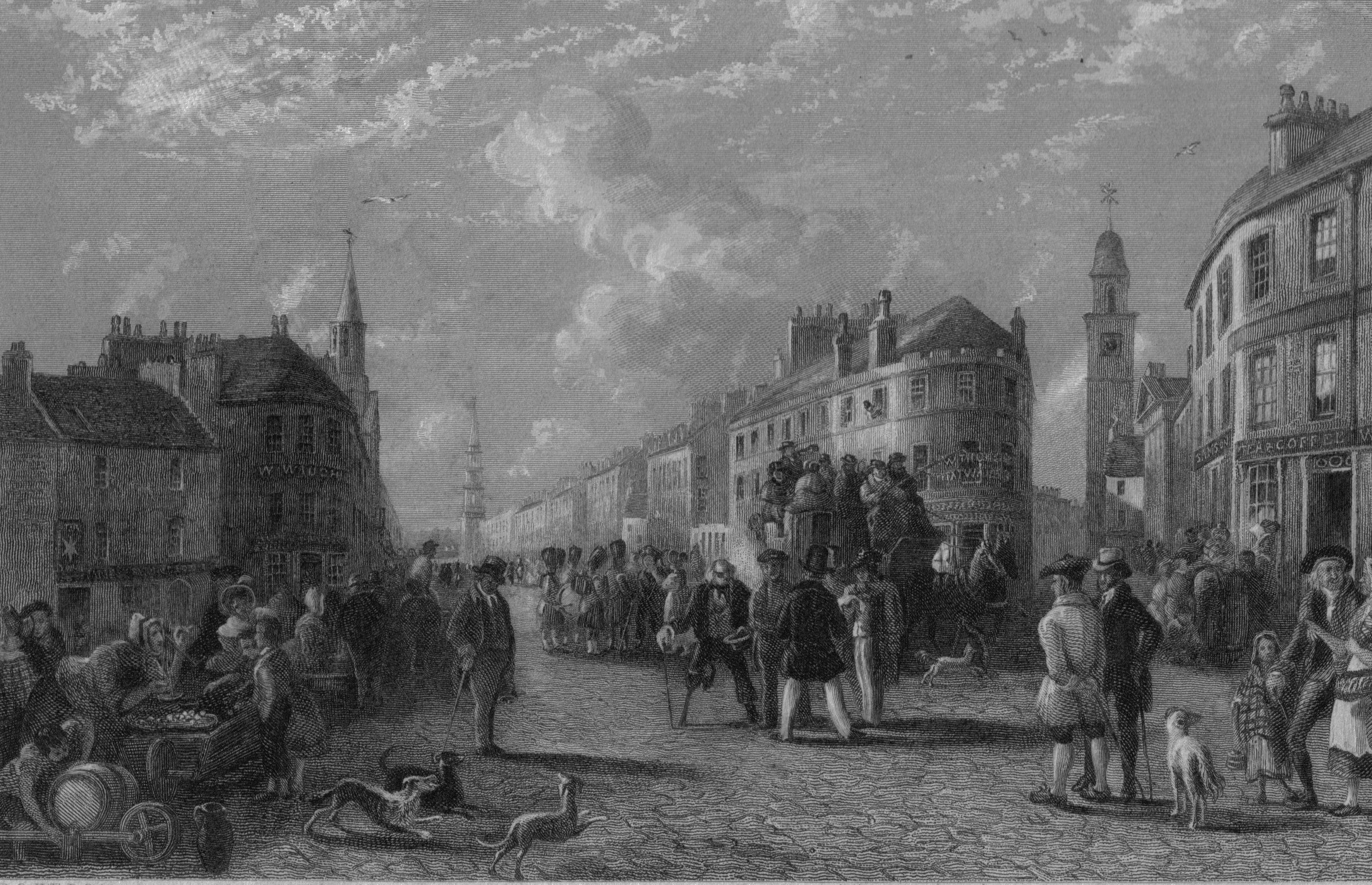 A view of Kilmarnock Cross, East Ayrshire, Scotland in 1840.